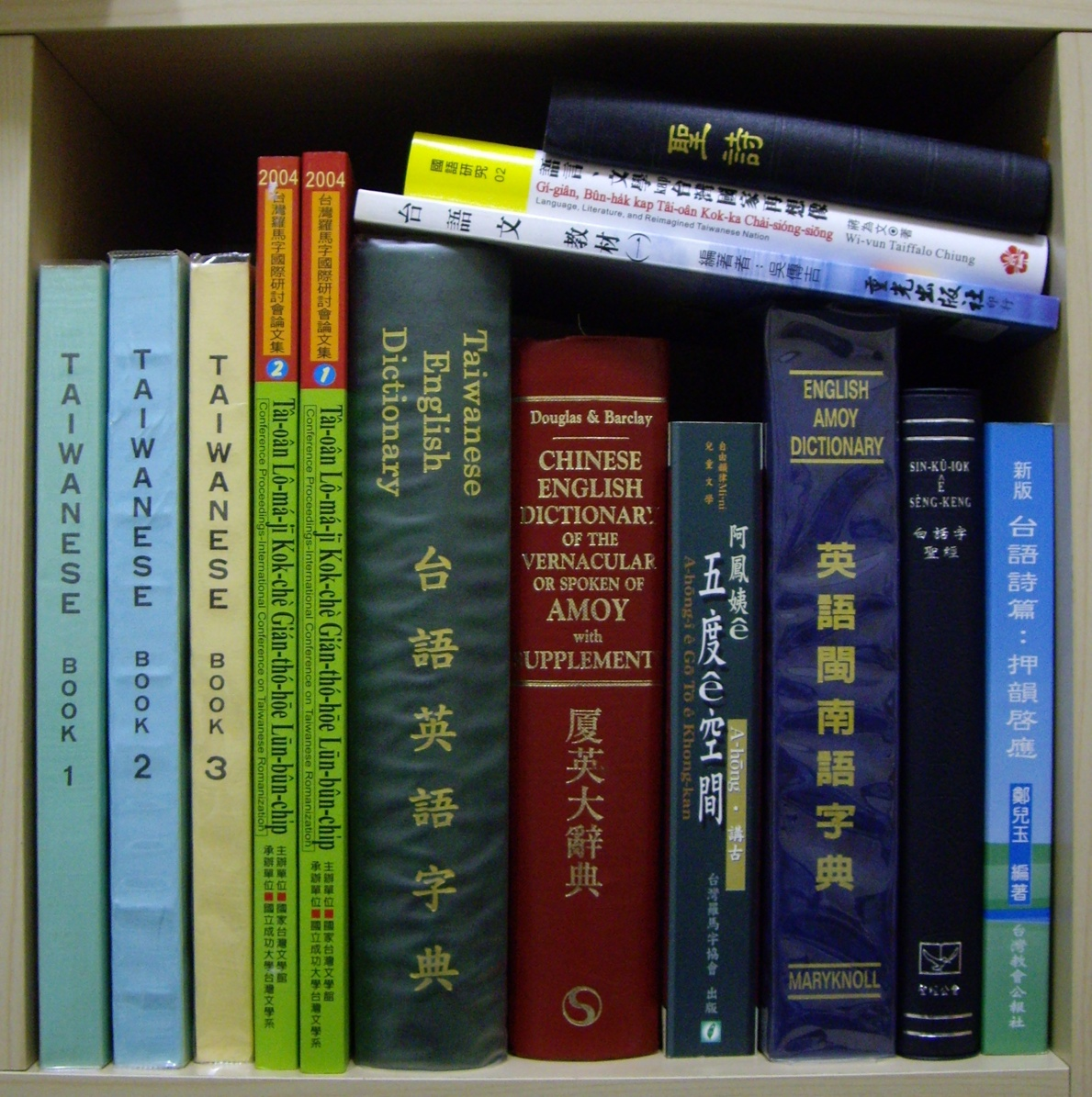 Shelf of books which use the Pe̍h-ōe-jī romanisation system for Southern Min/Taiwanese.